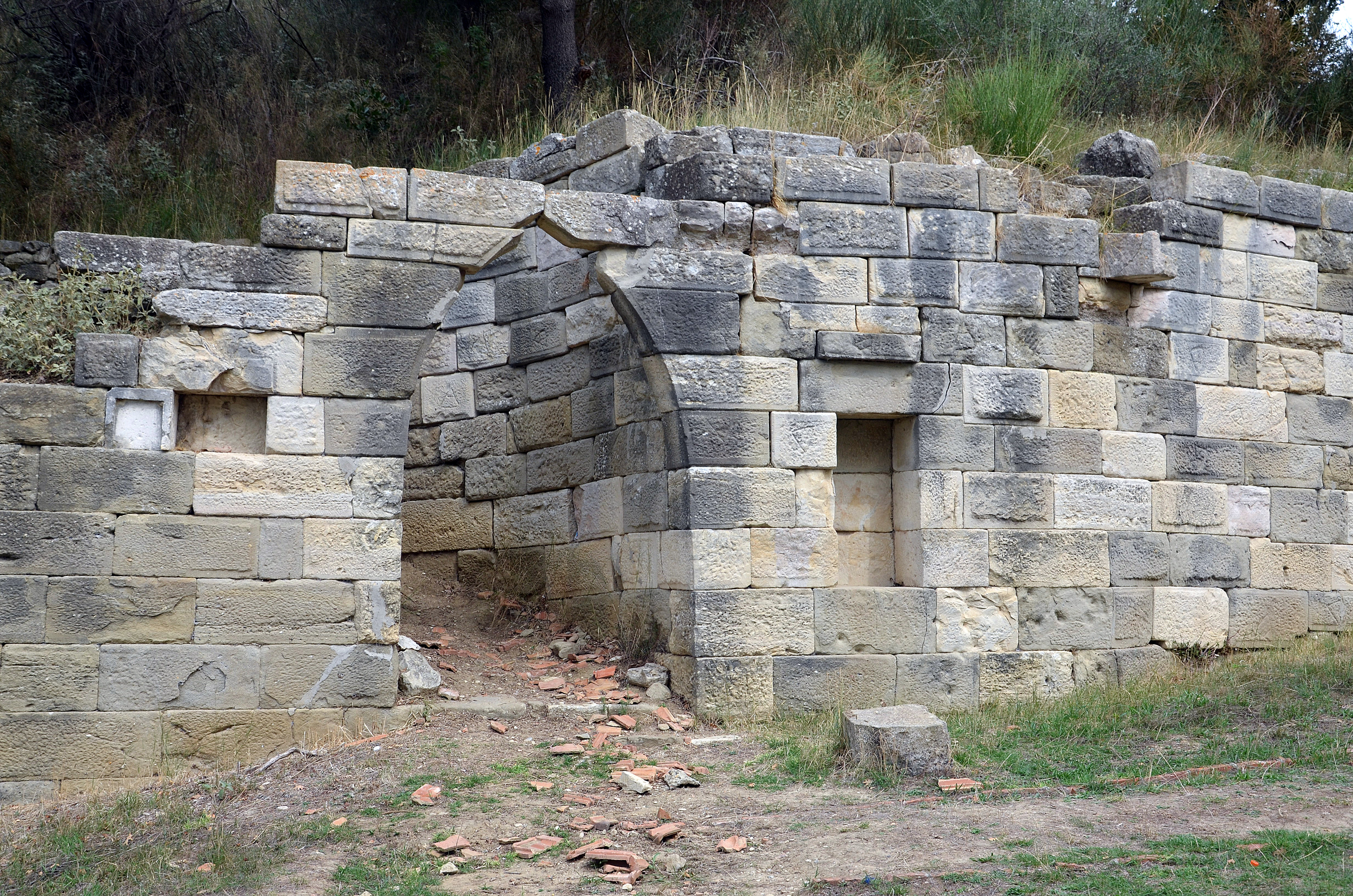 The wall of the temenos in Apollonia, Albania